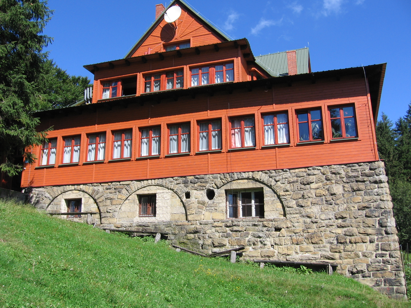 Mountain hut at Stożek Wielki mountain, Silesian Beskids, Poland